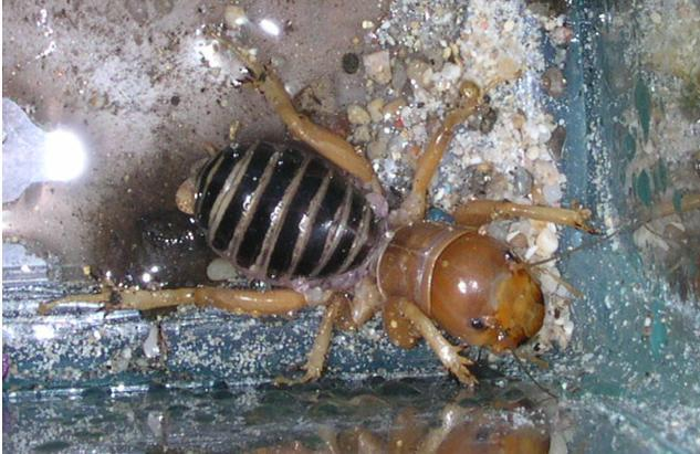 Jerusalem cricket Stenopelmatus fuscus (California, Monterey County). This ~2 inches long cricket was released after some pictures being taken.